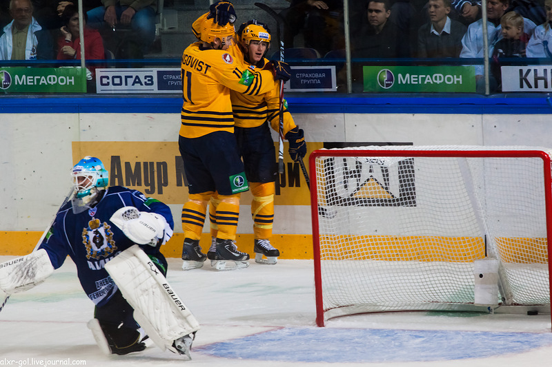 KHL game Amur Khabarovsk vs. Atlant Moscow Oblast on September 5, 2012. The puck is in the net after Nikolai Lemtyugov shot. His teammate Andreas Engqvist congratulates him. Alexey Murygin is in Amur net.